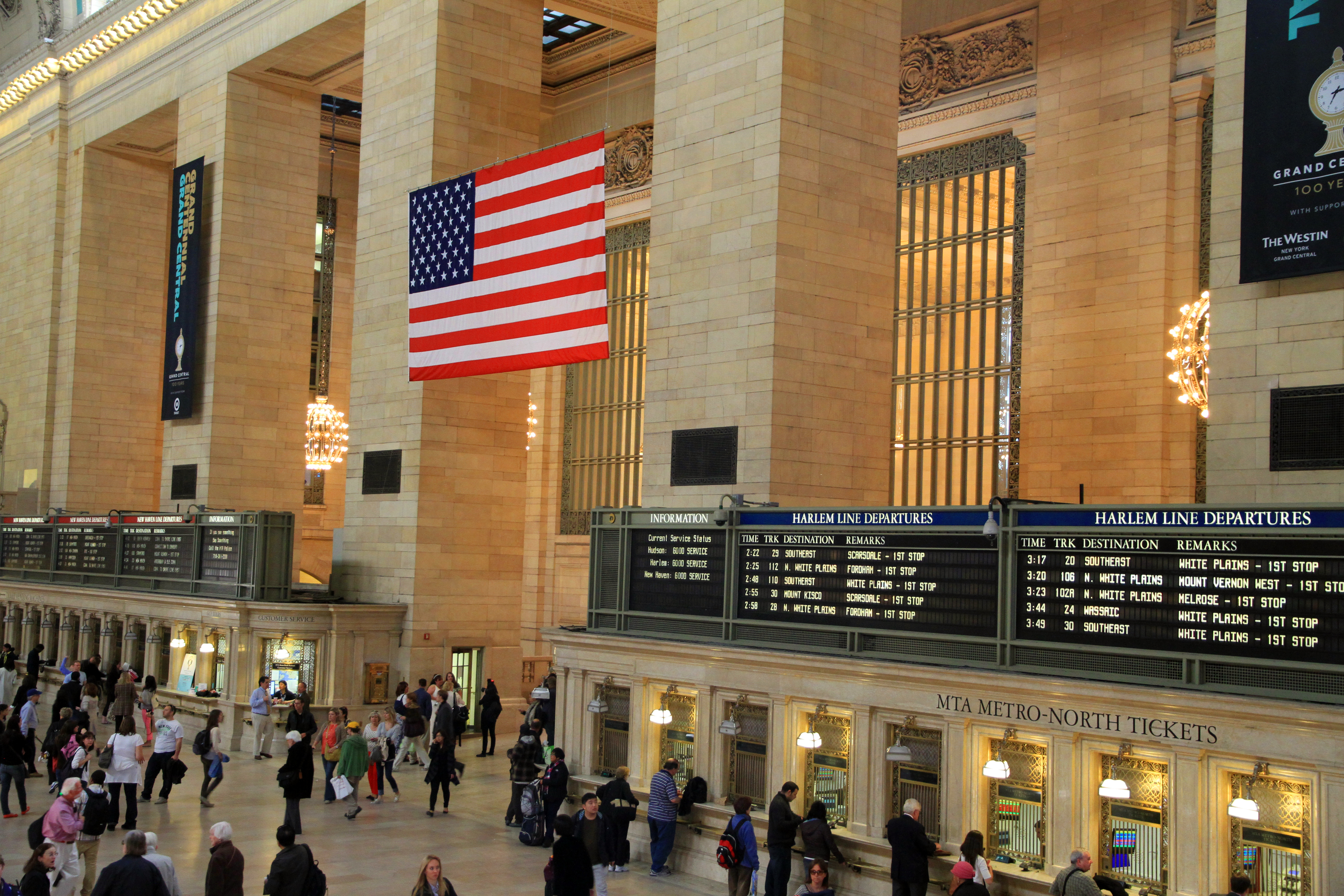 Main Concourse, 2013